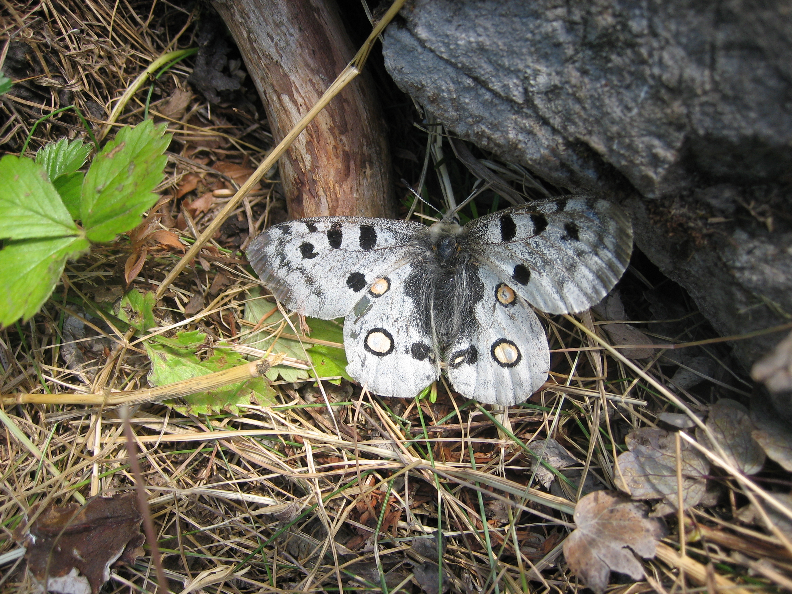 Image of a butterfly of genus Parnassius phoebus, taken on Schneeberg, Austria